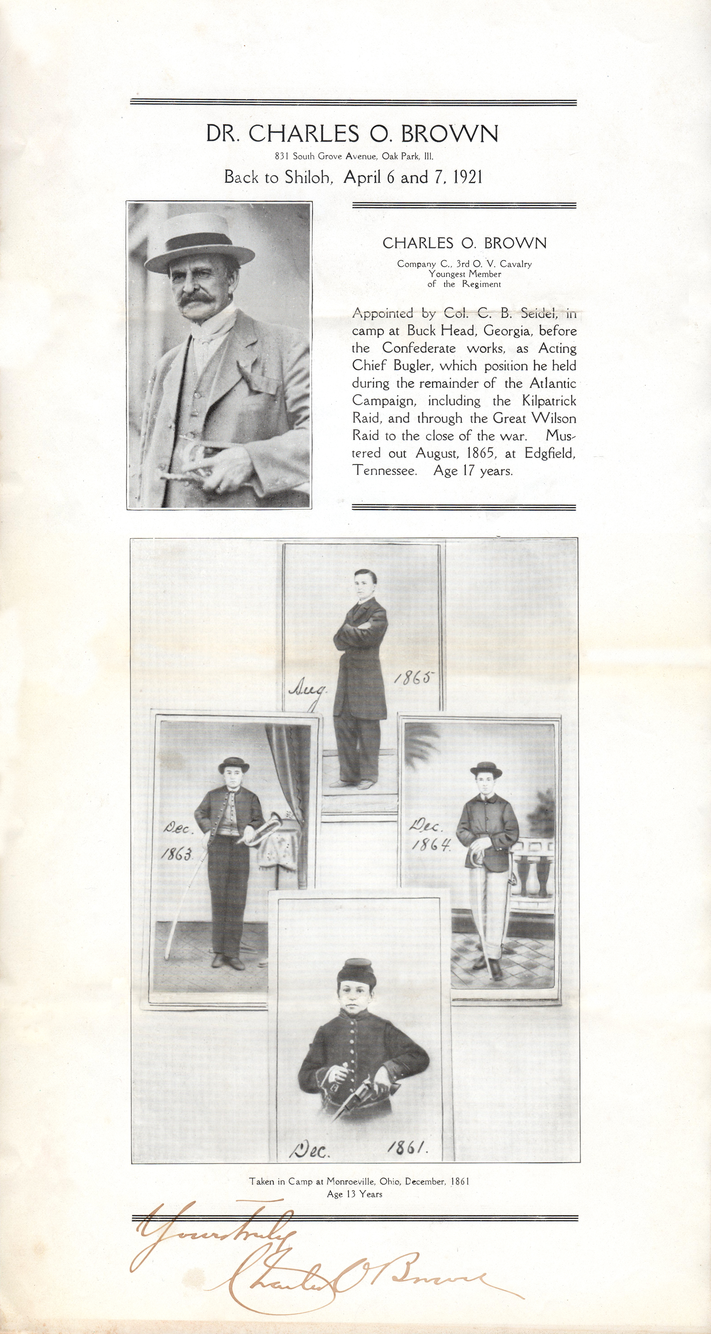 Free flyer handed out to participants at the 50th Anniversary of the Battle of Shiloh. Includes bio of Charles Oliver Brown of the 3rd Ohio Cavalry and his signature.